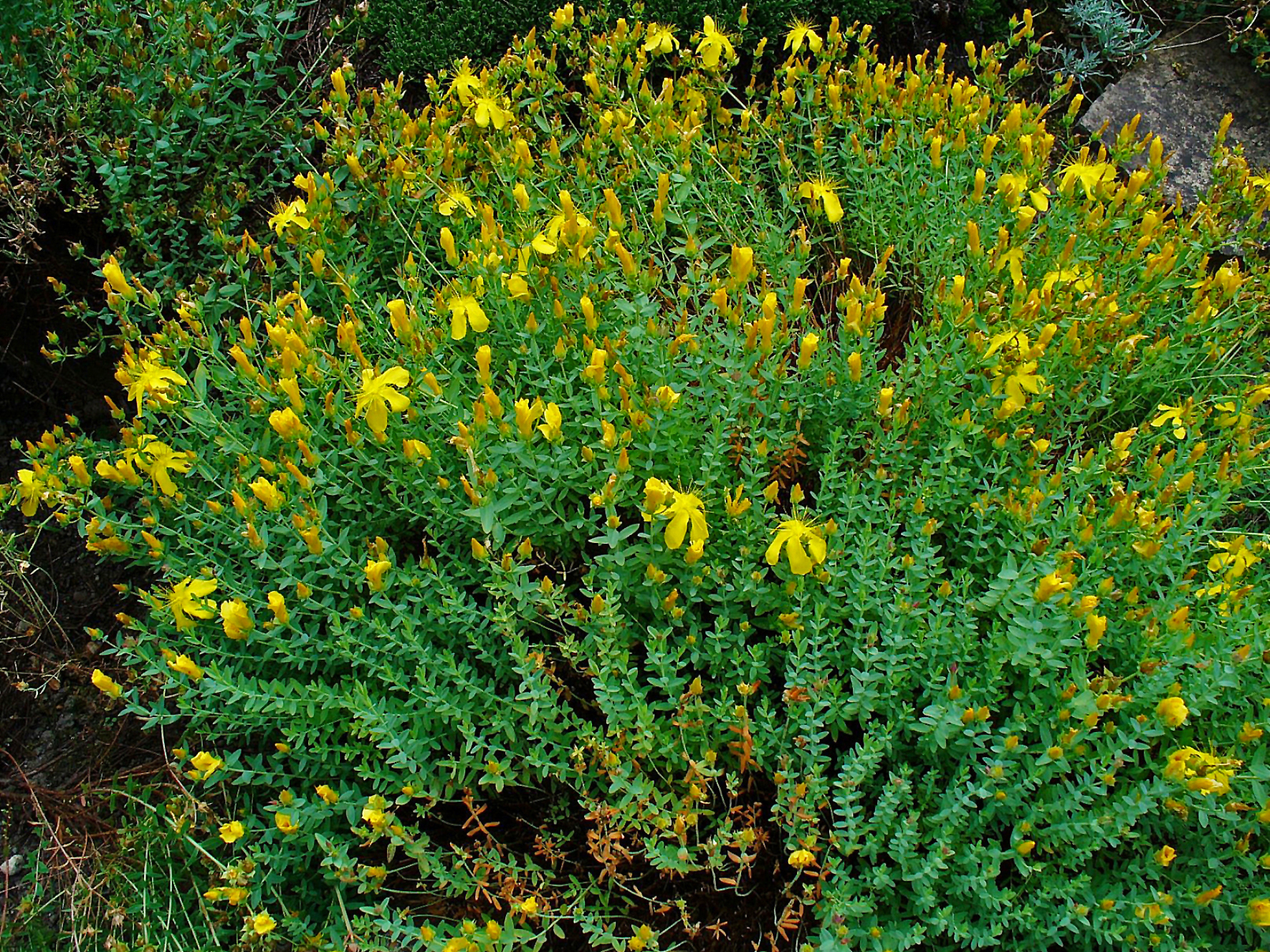 Hypericum olympicum, Hypericaceae, Olympic St. John's Wort, habitus; Botanical Garden KIT, Karlsruhe, Germany.